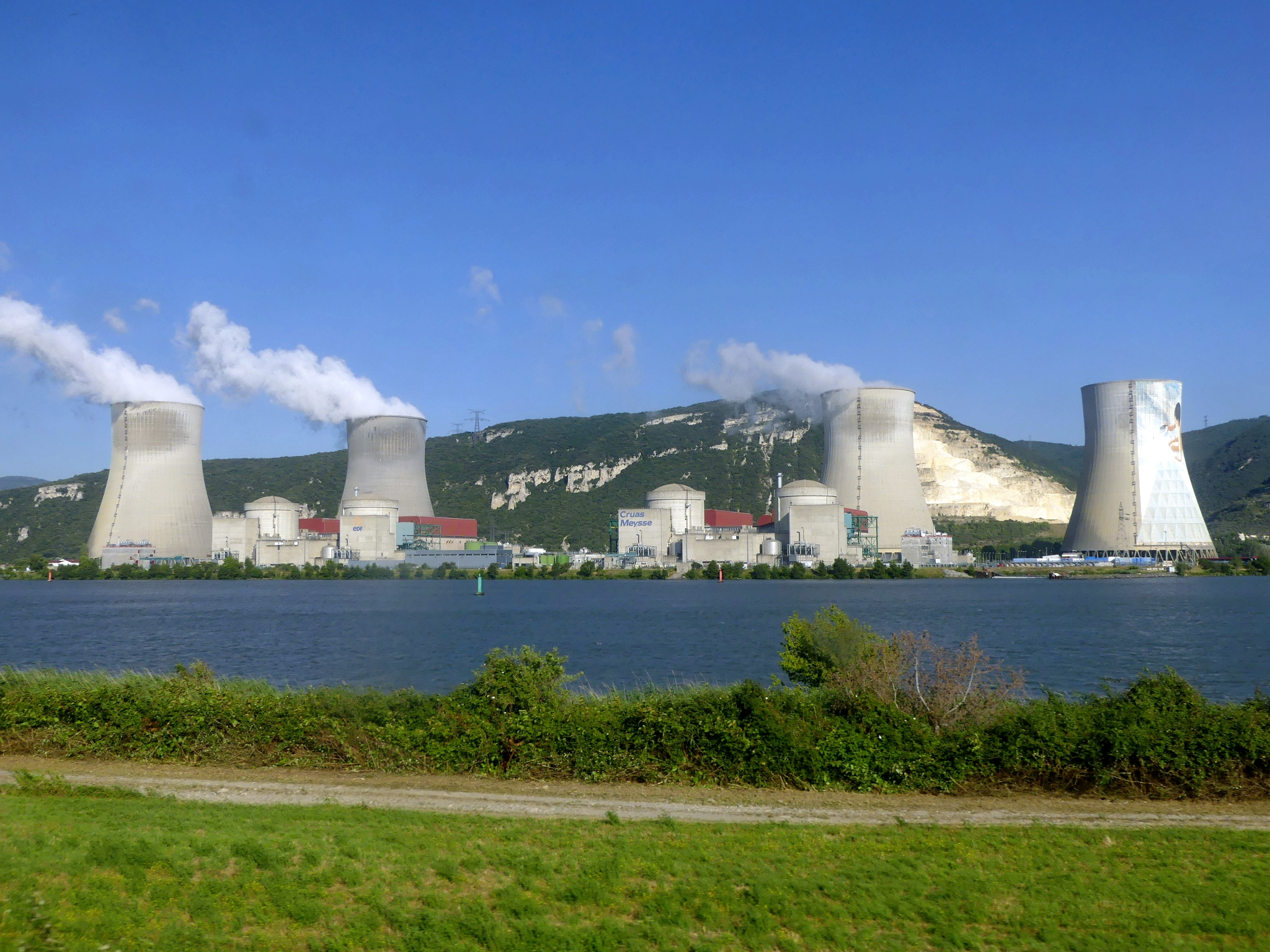 Sight, from the railway on the opposite side of the Rhône river, of Cruas nuclear plant, in Ardèche, France.